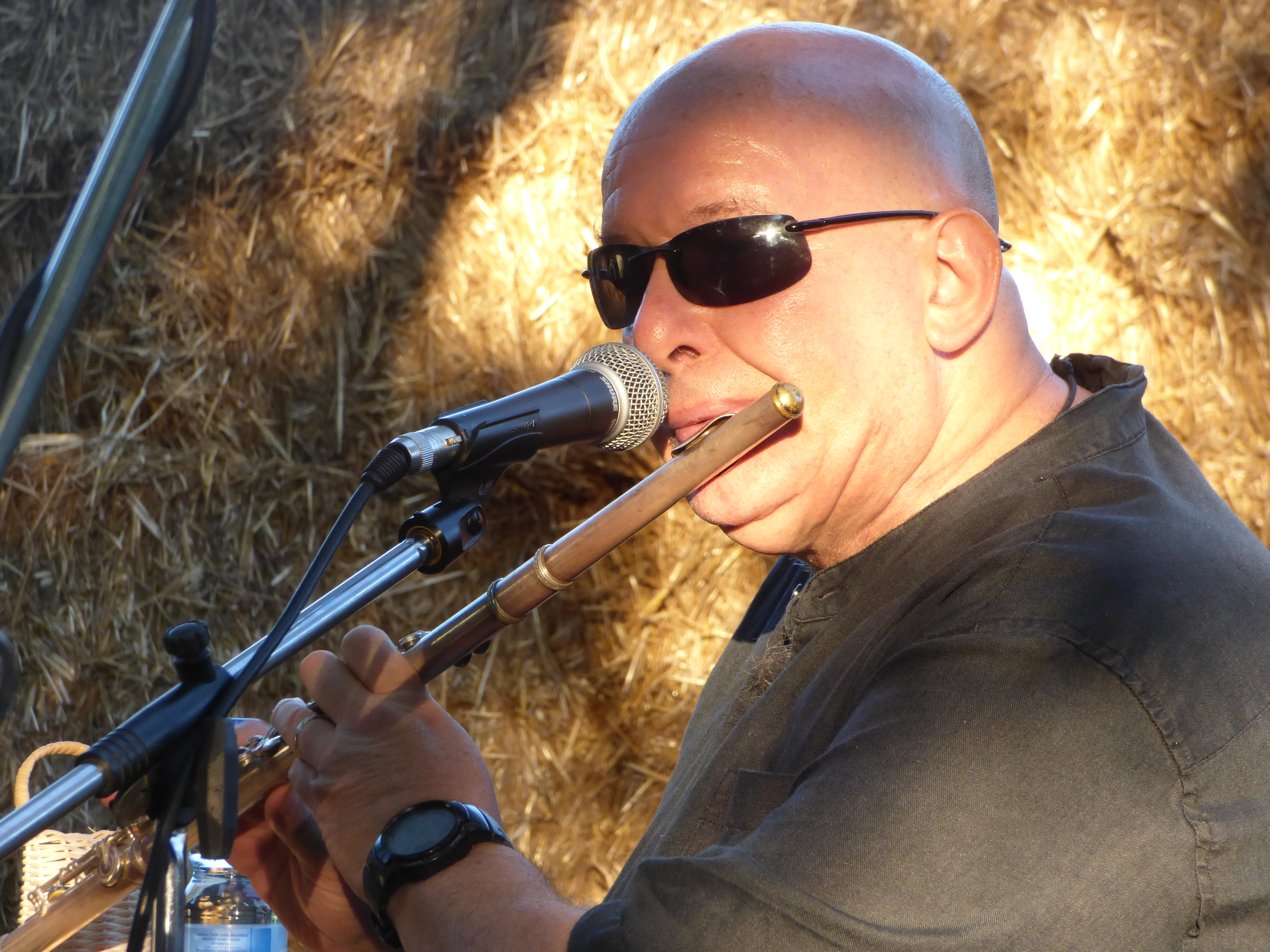 Török Ádám egy 2016-os fellépésén